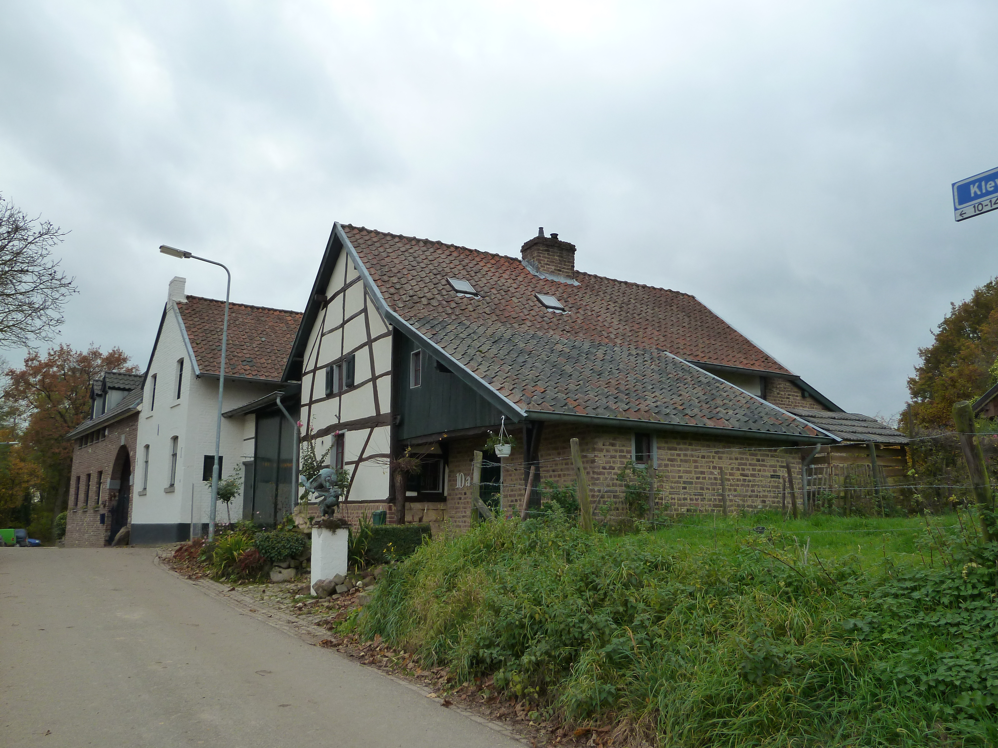 Kleverstraat 10, Schimmert, Limburg, the Netherlands